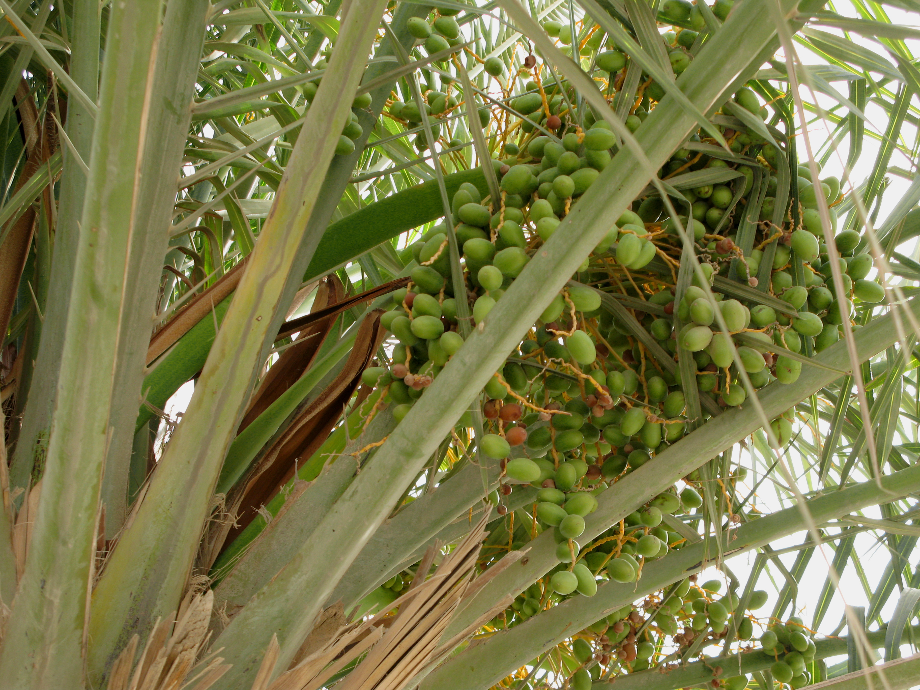 When selecting dates, look for plump, evenly colored specimens. All dates have a single long seed, but they can range in shape from oblong to round, depending on the cultivar. The date should not look dry or withered, and no crystals should appear on the exterior of the date. Fresh dates will last for up to two weeks under refrigeration, while preserved dates can last much longer, depending on how they are preserved.